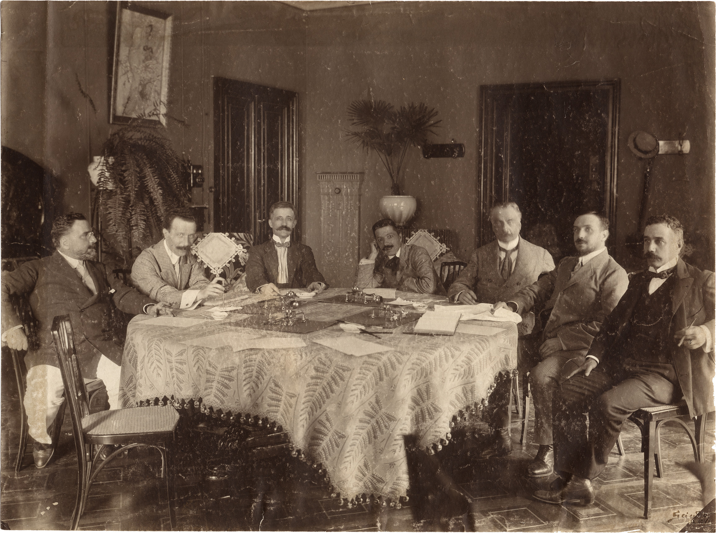 Portrait of Gerolamo Rovetta, Marco Praga, Giannino Antona Traversi, Augusto Novelli, Domenico Oliva, Renato Simoni, Sabatino Lopez. Photo by Giovanni Battista Sciutto, Genova, 1907.